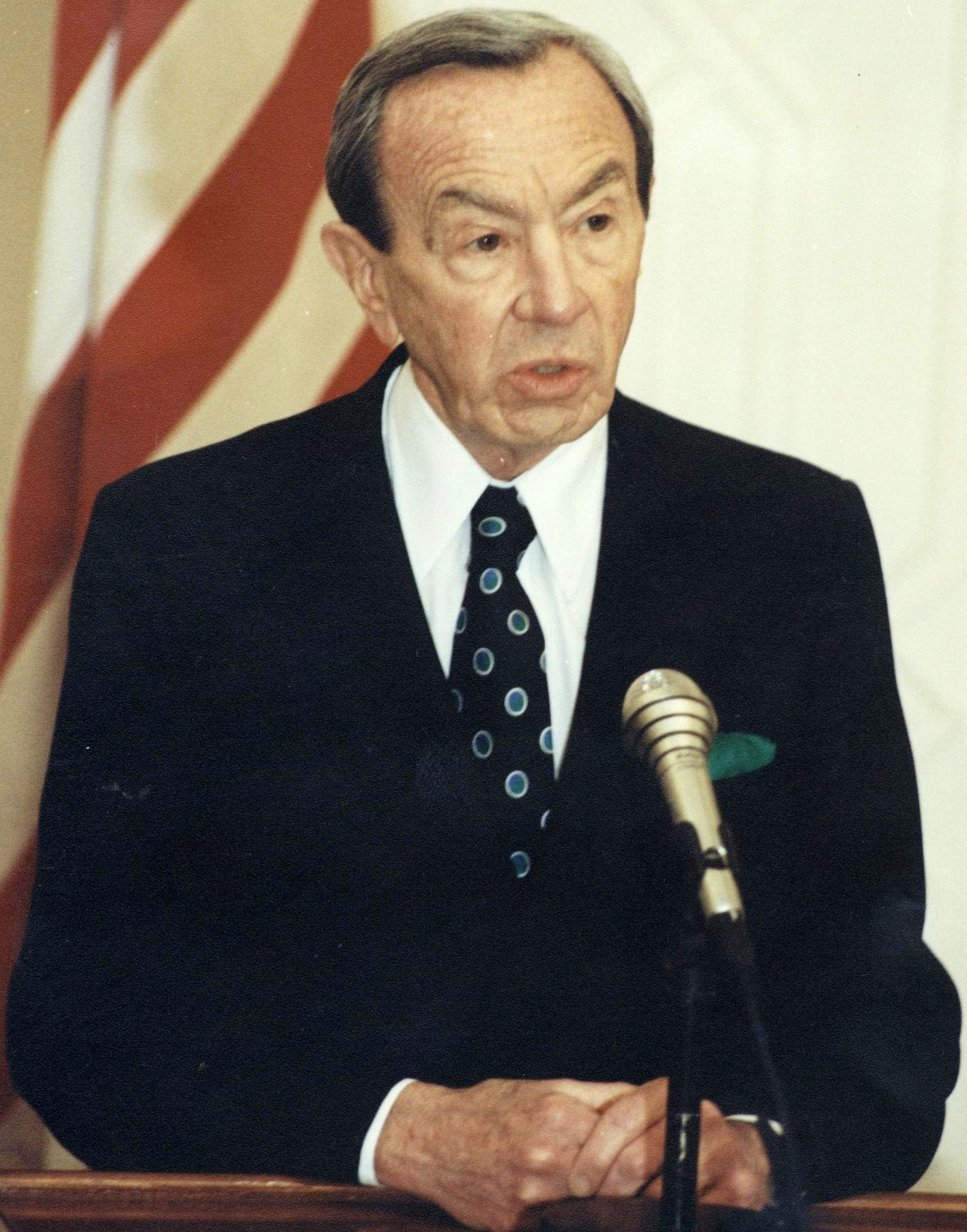 Warren M. Christopher, 63rd Secretary of State